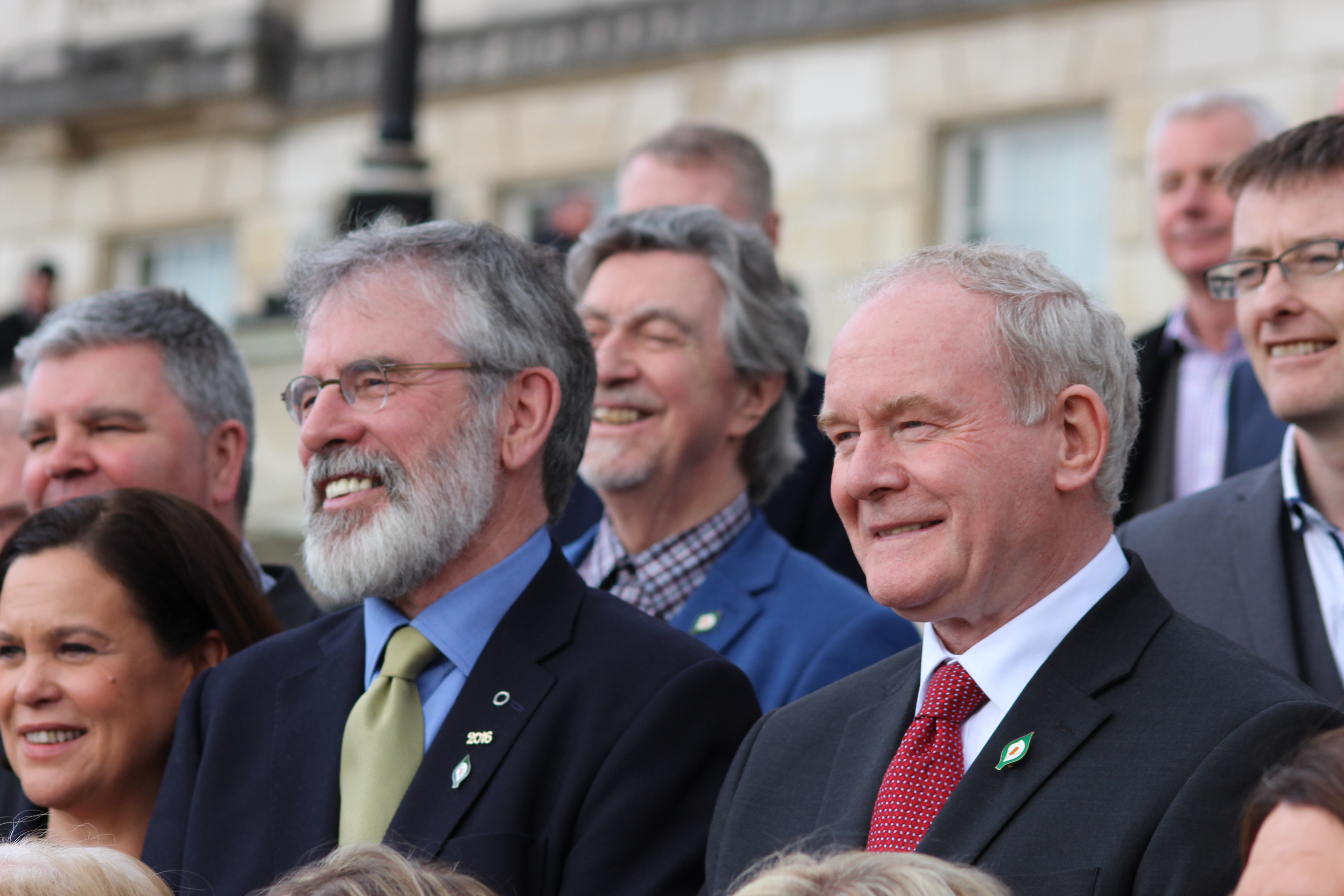 Gerry Adams and Martin McGuinness. Mary Lou McDonald on extreme left